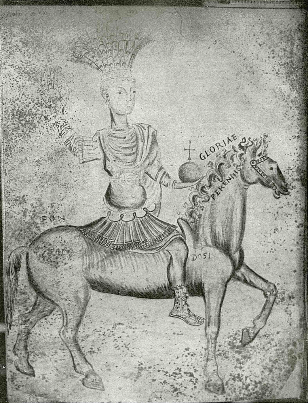 Ciriaco de' Pizzicolli, Statue of Justinian.